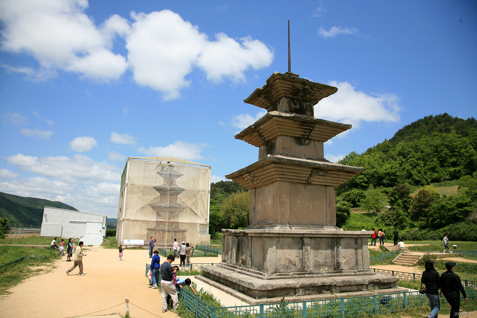 Pagodas at Gameunsa temple ruins in Gyeongju, North Gyeongsang province, South Korea